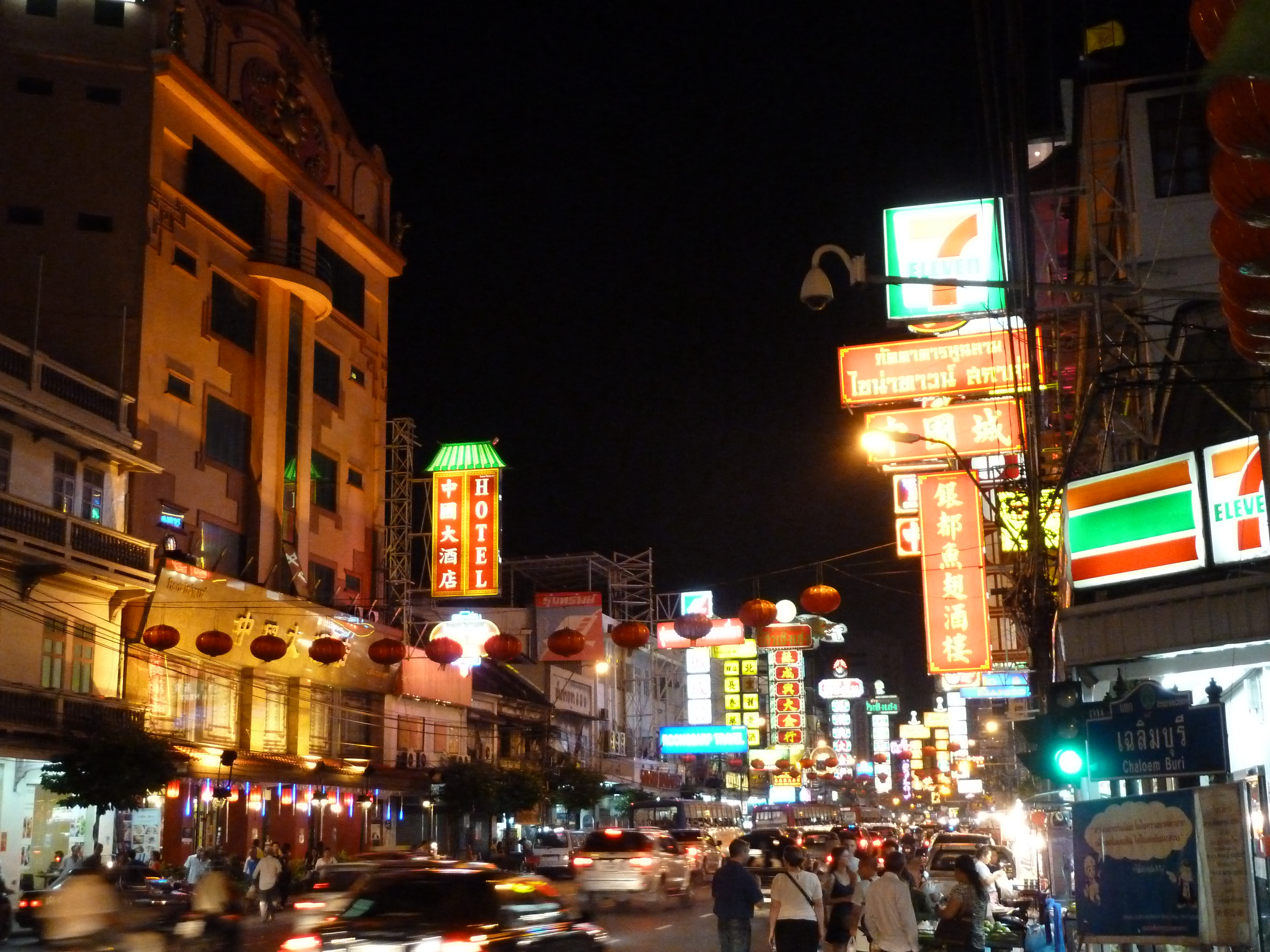 Night time, Bangkok, Thailand